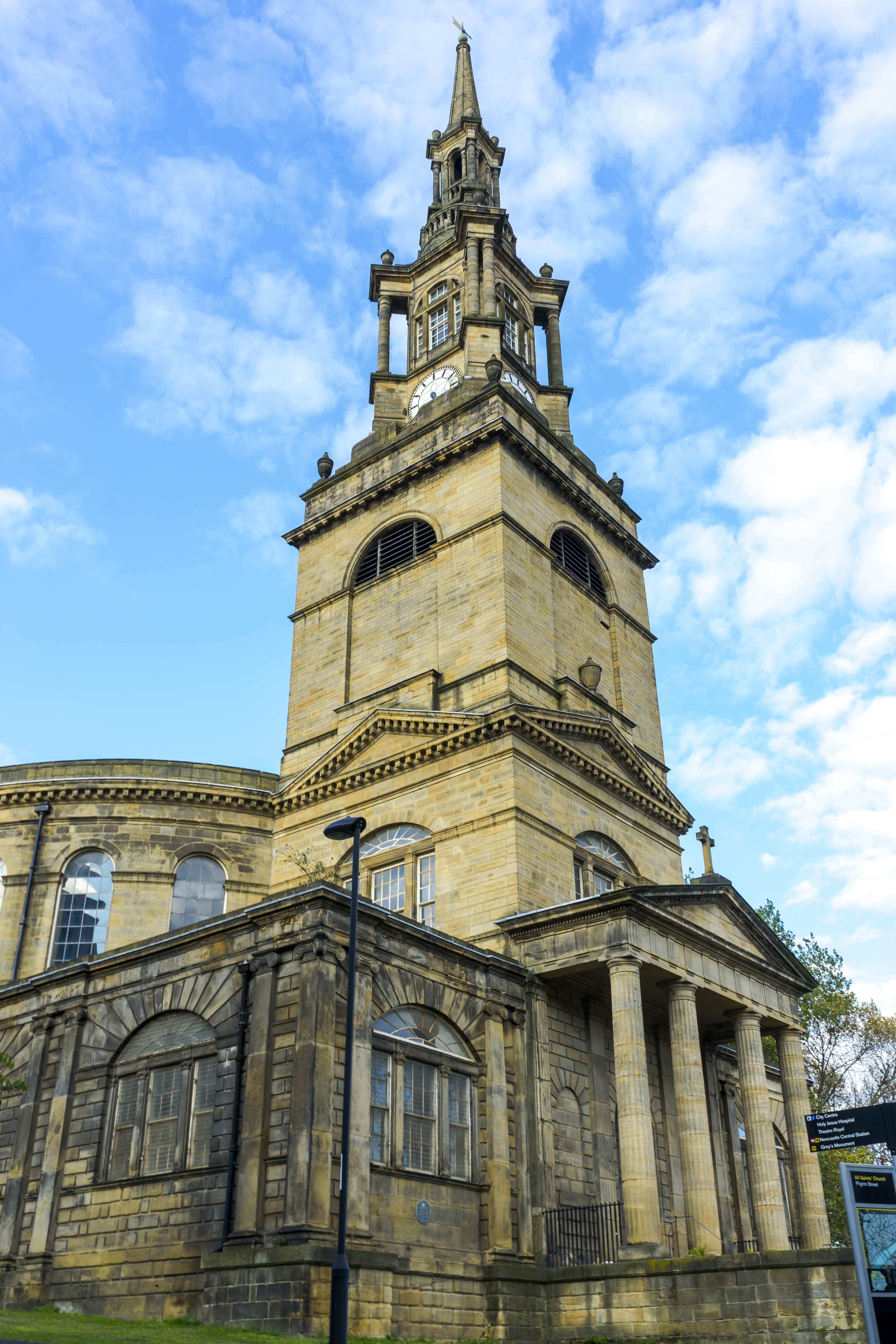 Church Of All Saints Wikidata has entry Q17534107 with data related to this item.